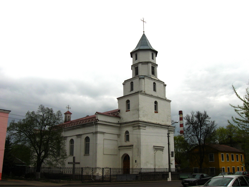 Catholic church of the Birthday of the Blessed Virgin Mary (Barysaŭ, Belarus).